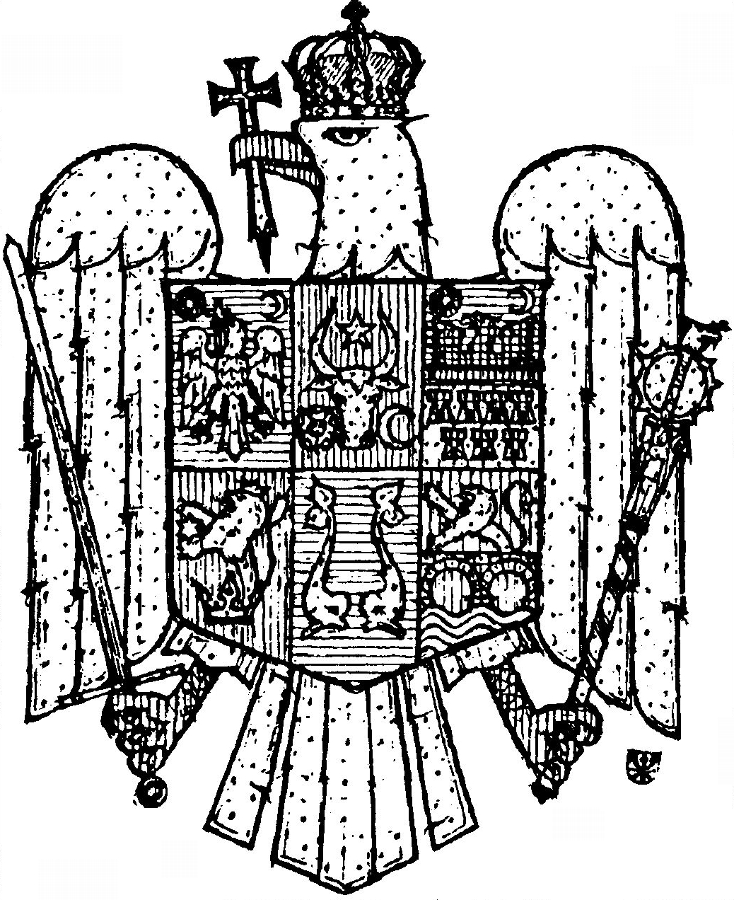 CoA of Romania, 1990 proposal